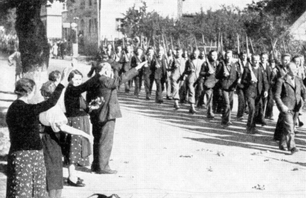 Sudeten German Freikorps